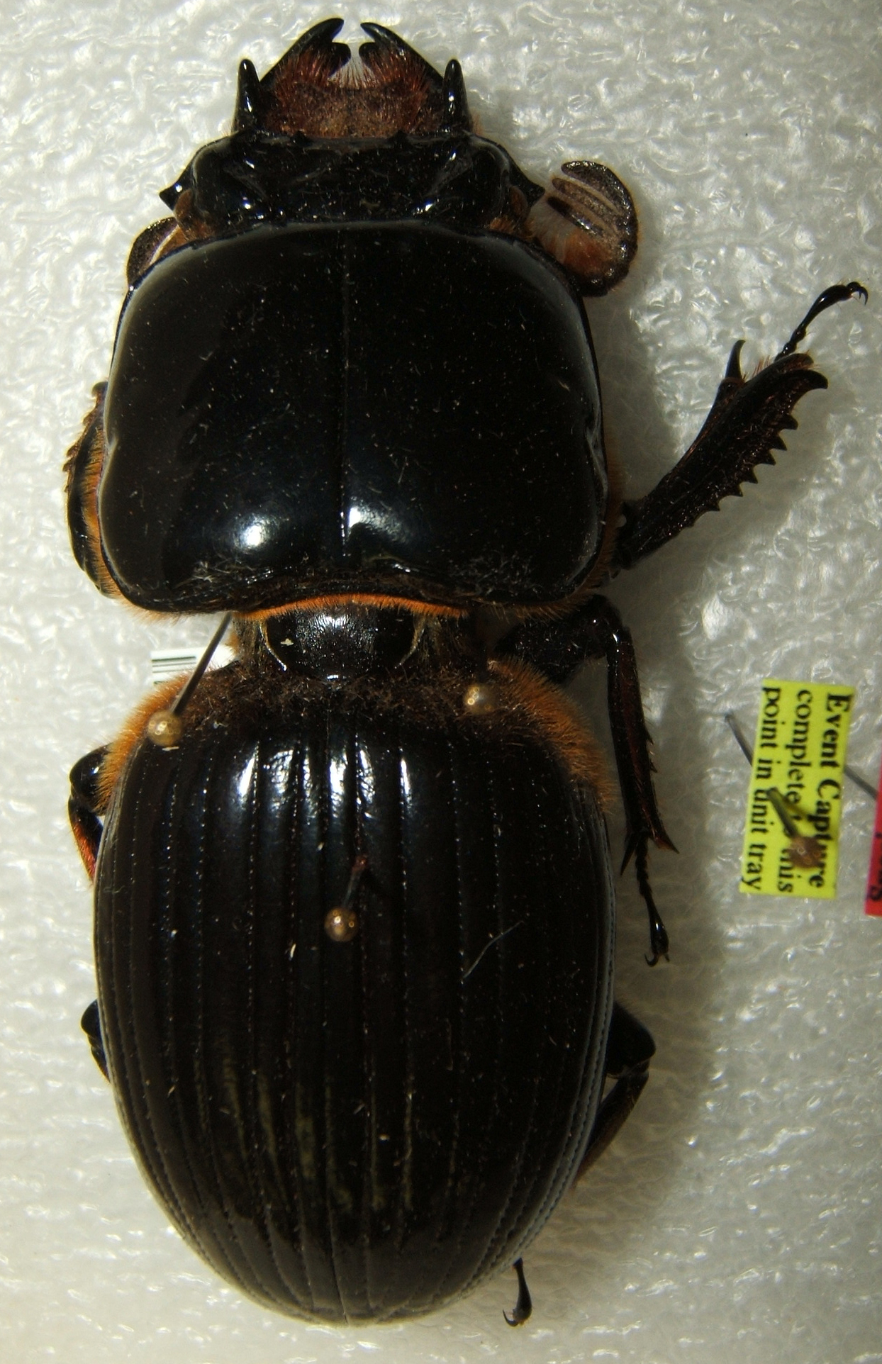 Proculus burmeisteri adult taken by Shawn Hanrahan at the Texas A&M University Insect Collection in College Station, Texas.